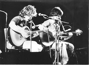 Larry Coryell and Brian Keane In Concert 1993